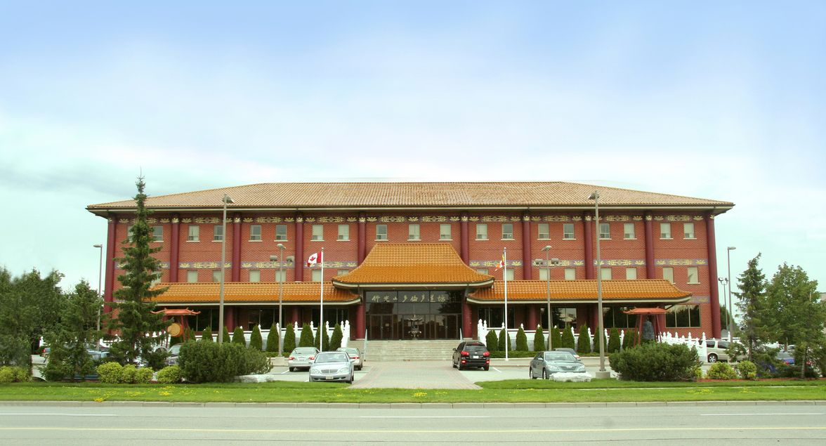 中文（台灣）: 多倫多佛光山（Fo Guang Shan Temple of Toronto）